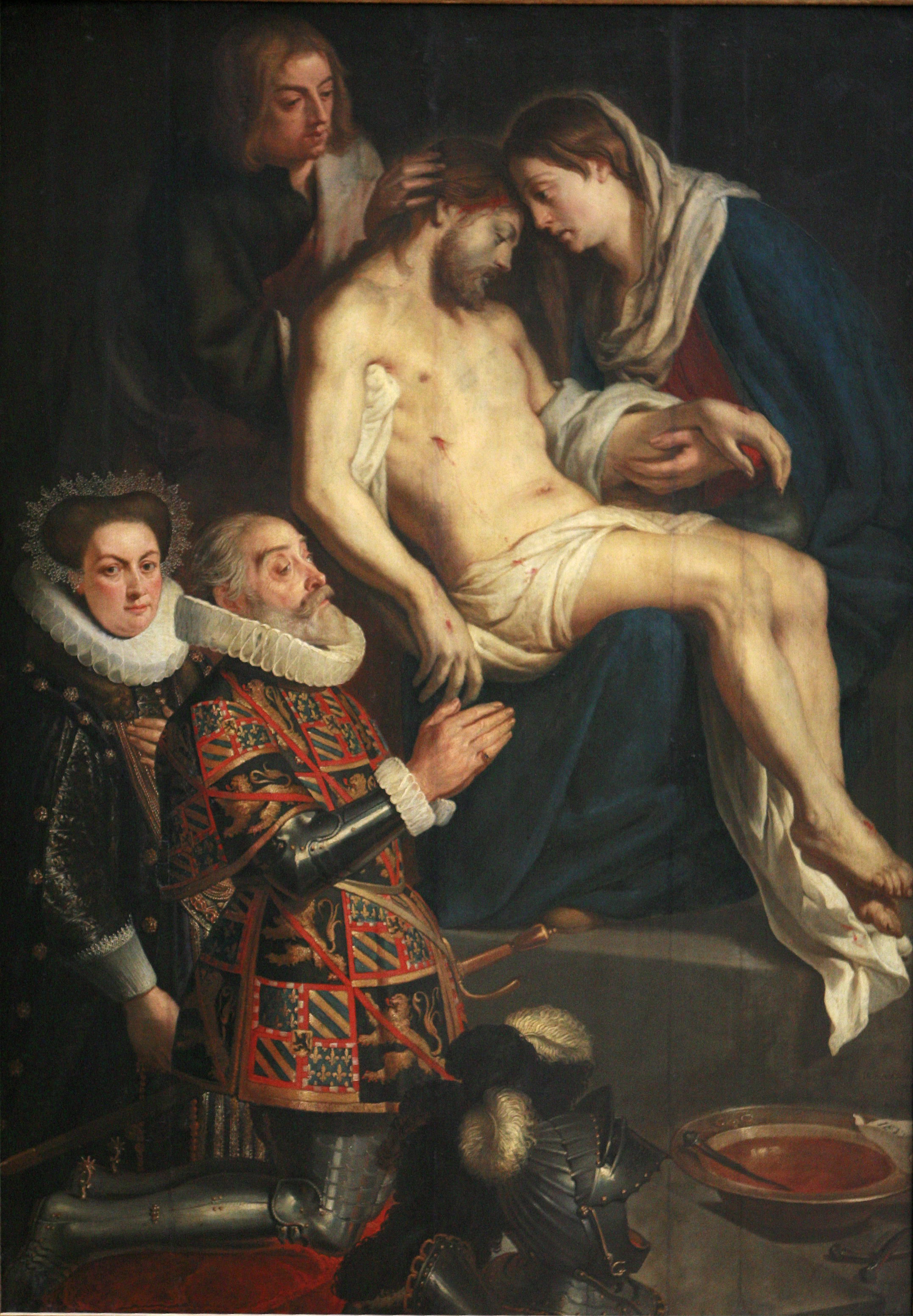 Portrait of an old man